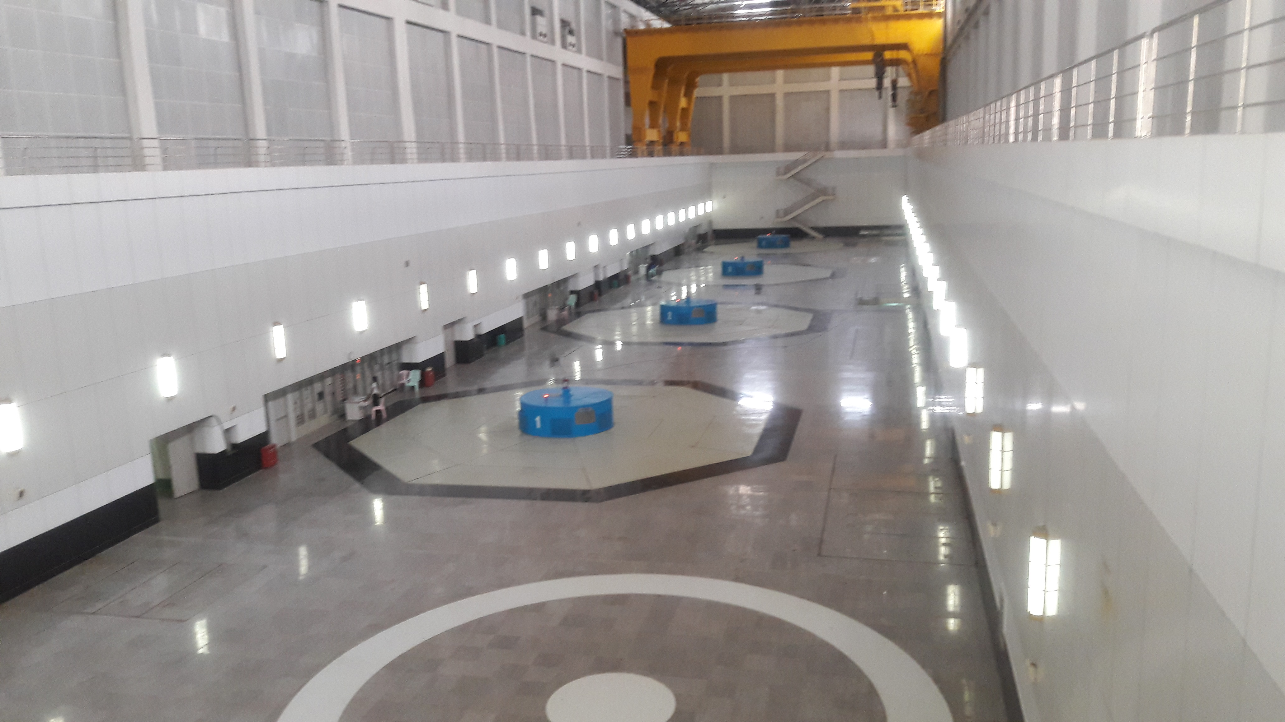 The four generators of yeywa dam